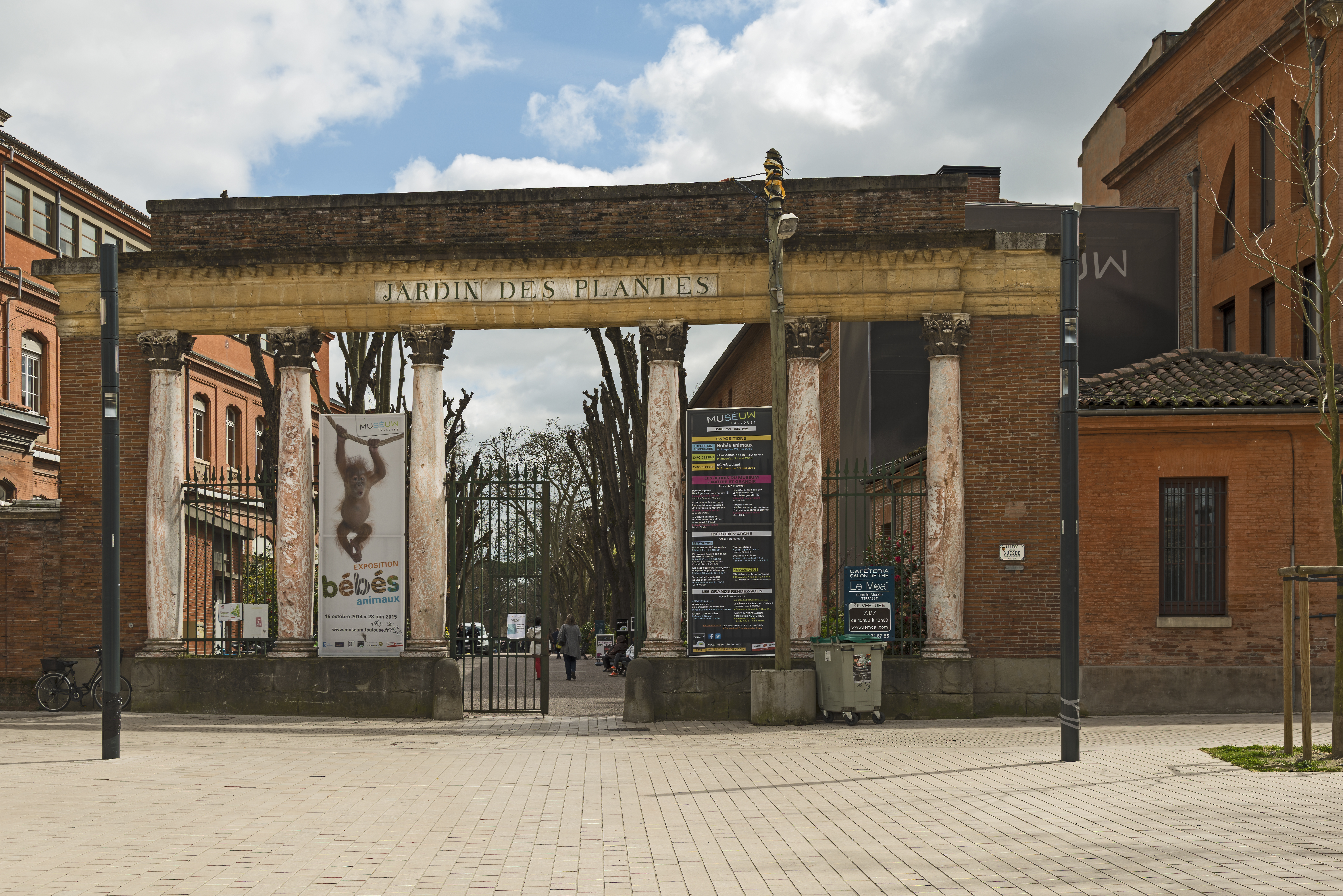 Entrance of jardin des plantes, Toulouse by Jacques-Pascal Virebent, Allée Jules Guesde.